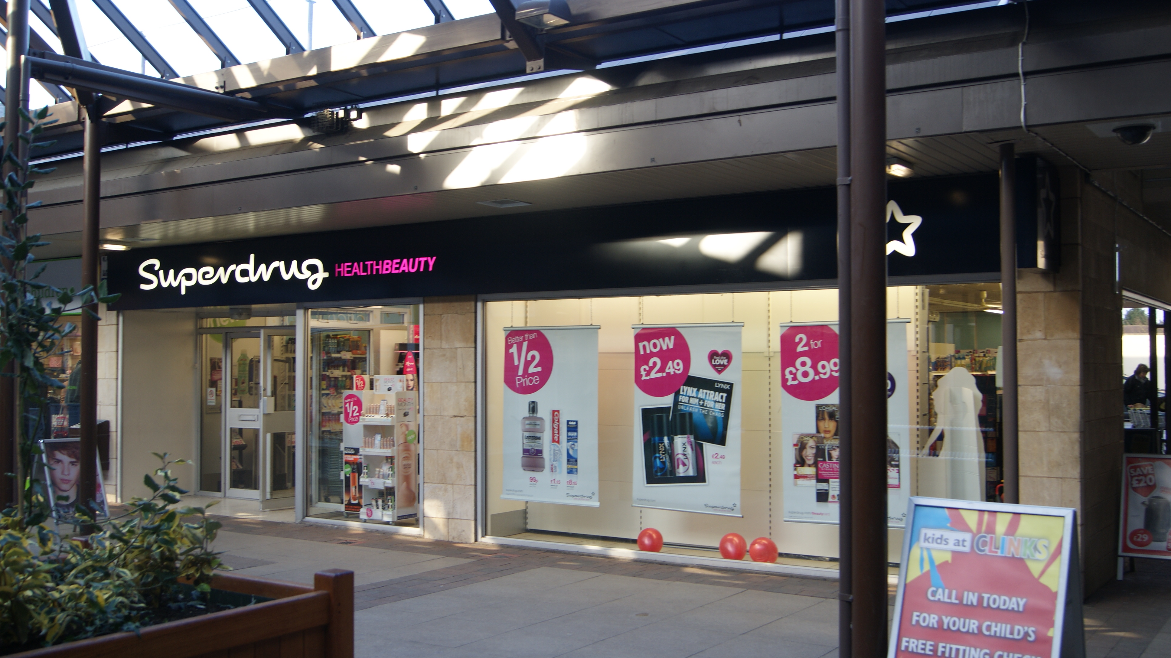 Superdrug, Horsefair Centre, Wetherby, West Yorkshire. Taken on the afternoon of Wednesday the 1st of February 2012.